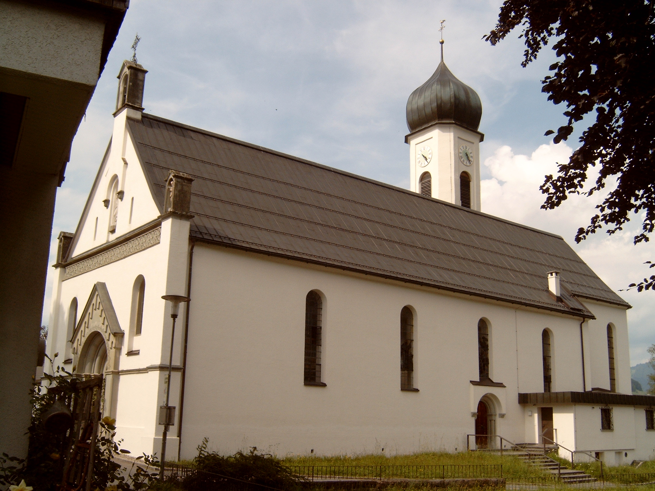 Andelsbuch, church